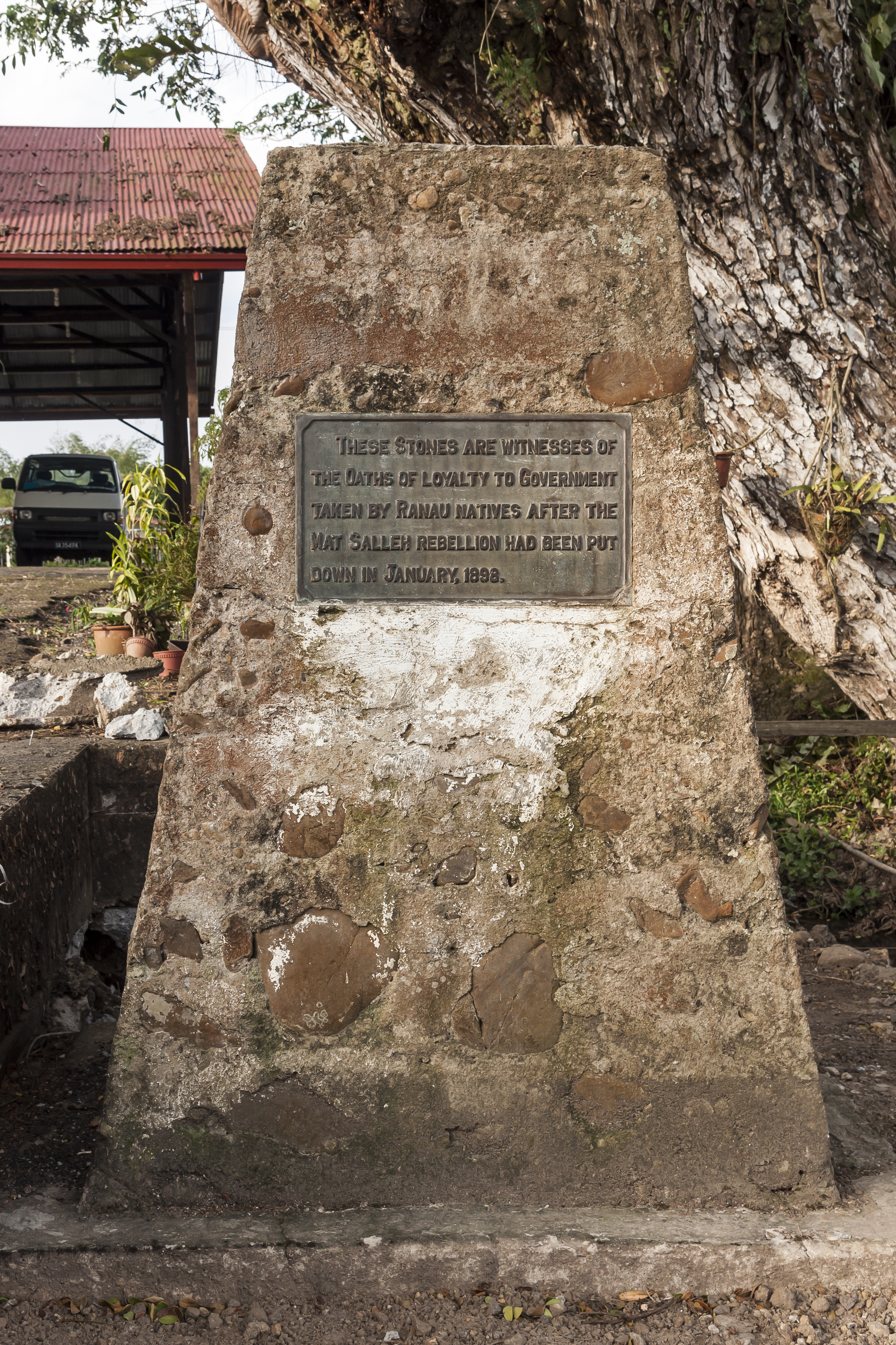 Ranau, Sabah: Oath Stone, erected by the BNBCC in January 1898 "as witness of the oaths of loyality to Government taken by Ranau Natives after the Mat Salleh Rebellion"